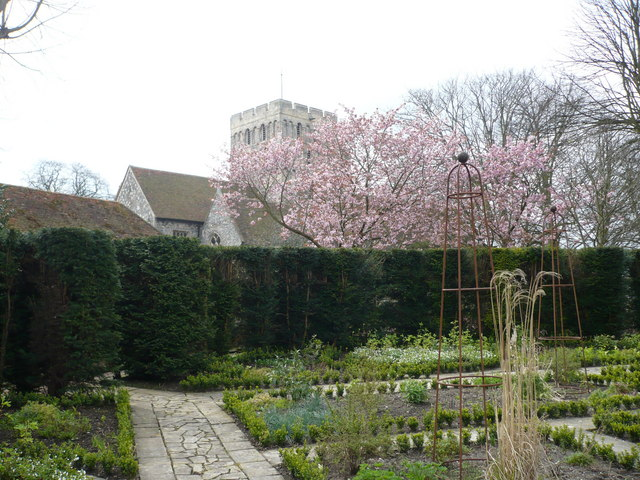 St. Clement's Church A view of the church from The Salutation, on the corner of Sandown Road and Knightrider Street.